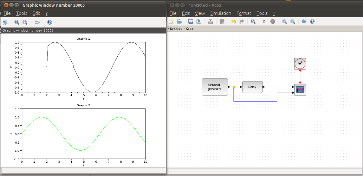 Screenshot of Xcos Hybrid dynamic systems modeler and simulator, showing a continuous sine source connected to a discrete time delay.